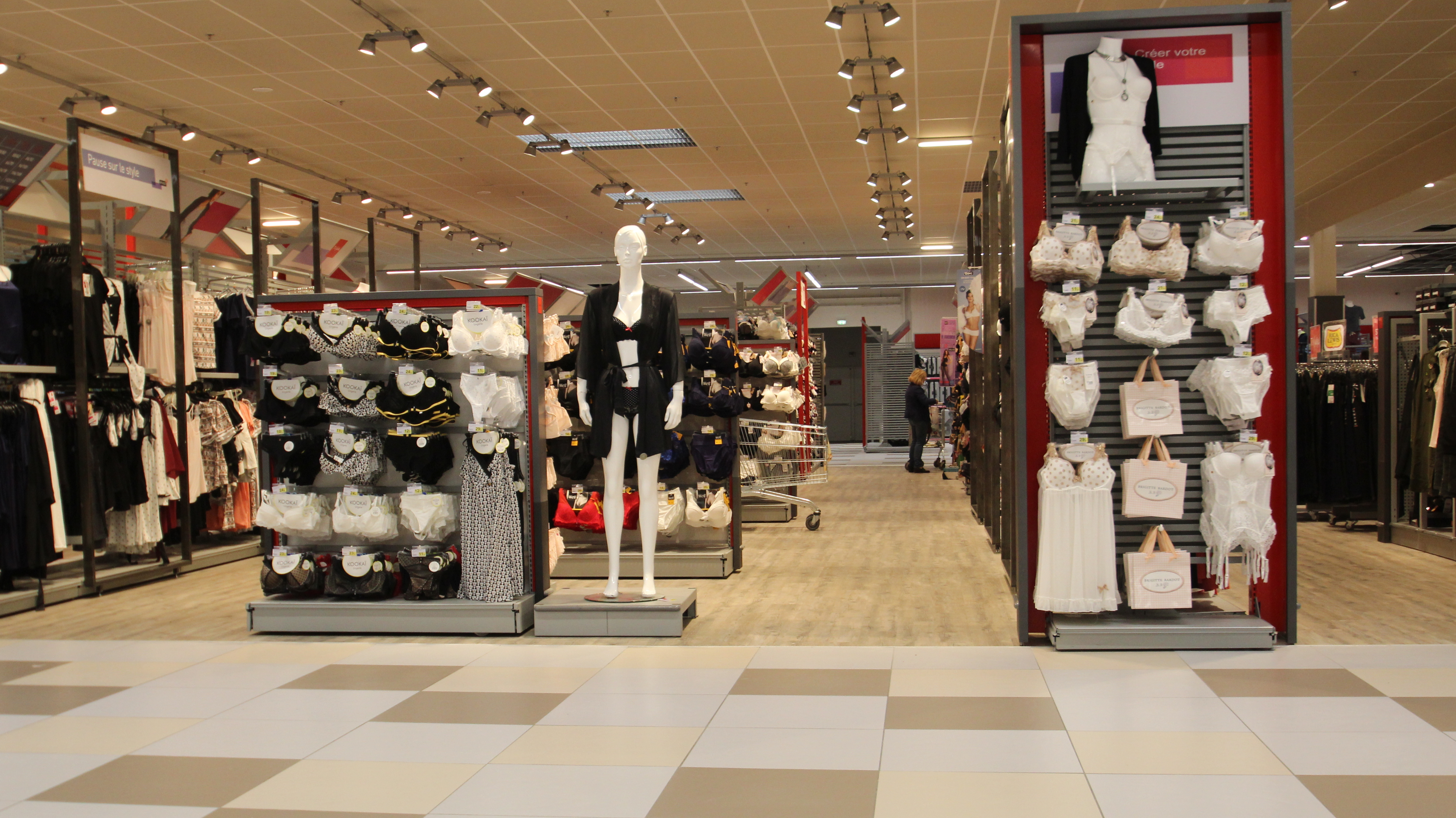 Hypermarket E.Leclerc in Bois-d'Arcy, Yvelines, France. Object location48° 47′ 56.18″ N, 2° 02′ 14.71″ E